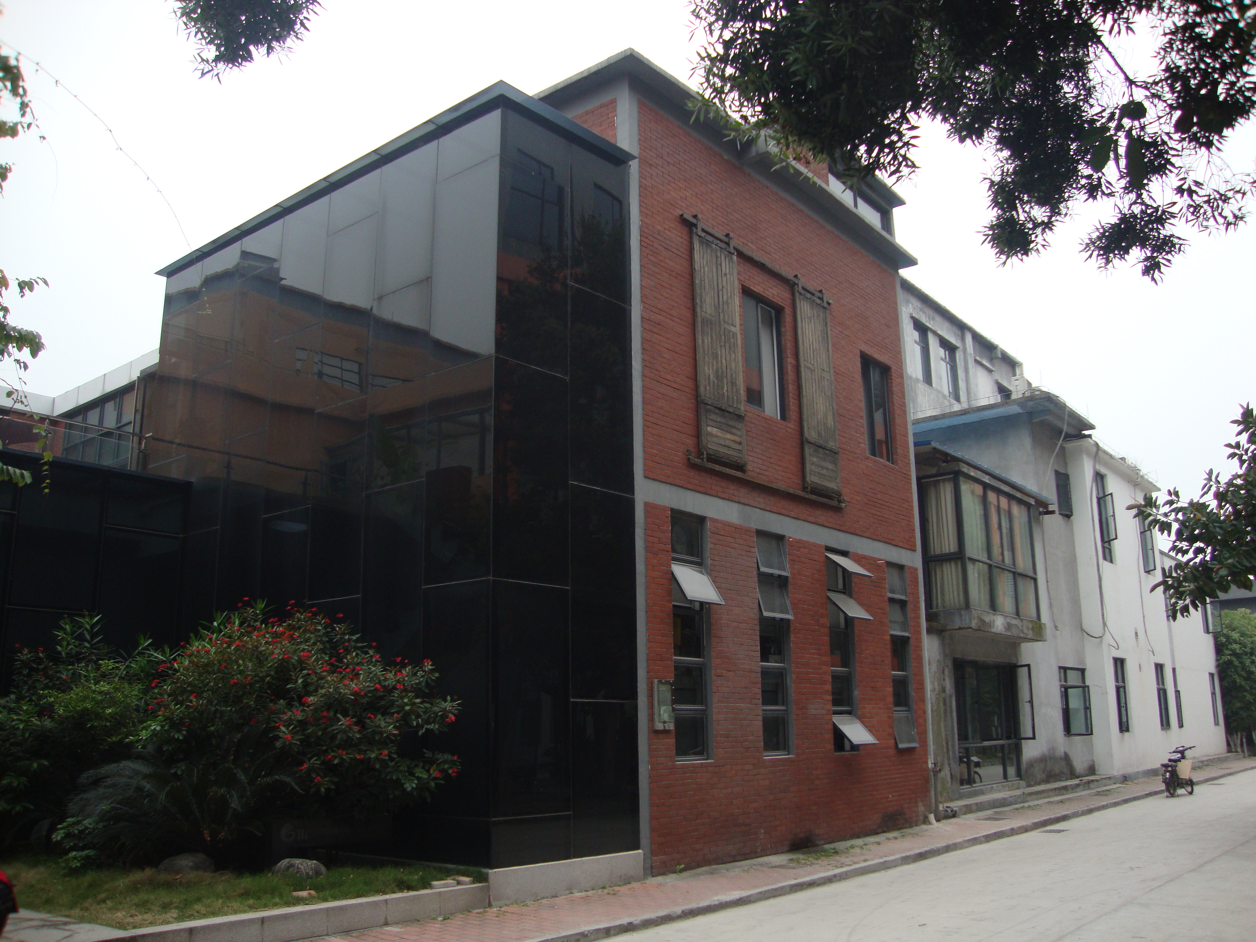 The Headquarter Building of Guangzhou Tianwen Kadokawa Animation & Comic Co., Ltd.